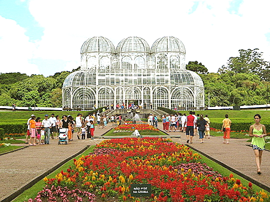 This picture was shot by Mayra Felicio Terzian (I was at her side when she took this photo, in January 9th, 2005) and edited by myself. We release it for public domain.